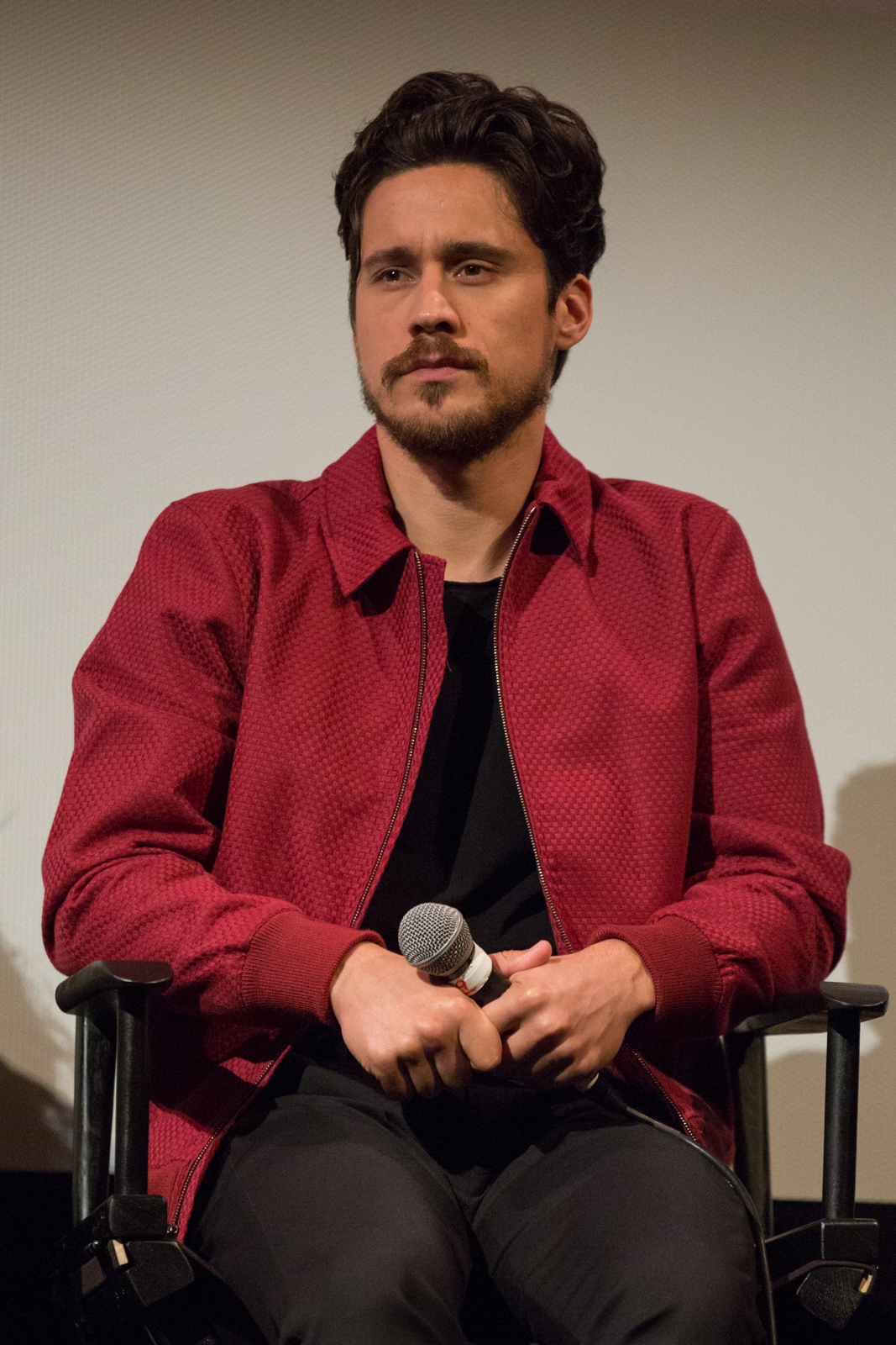 Peter Gadiot at the ATX Television Festival presentation of the TV show "Queen of the South"